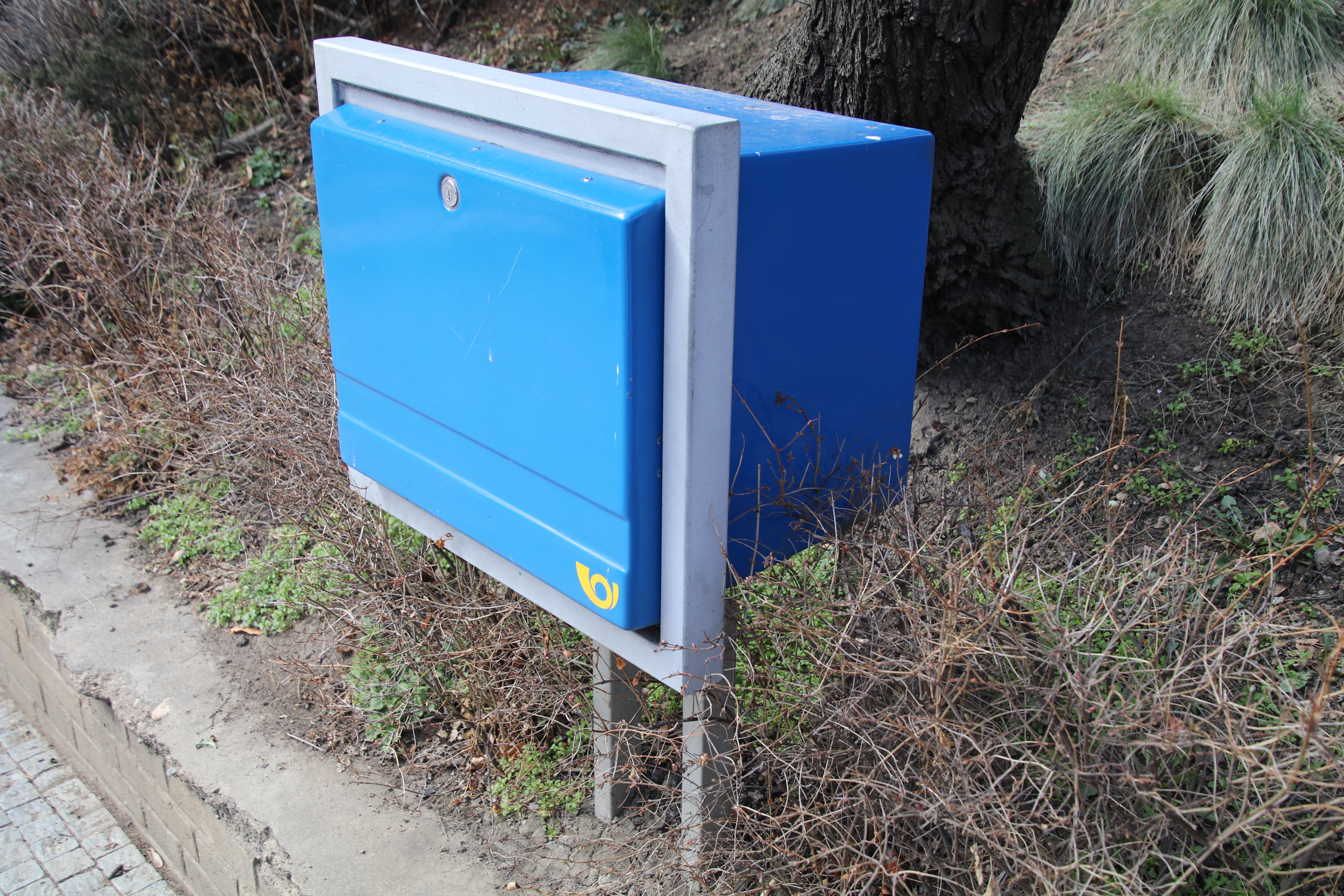 Czech Post distribution depot.